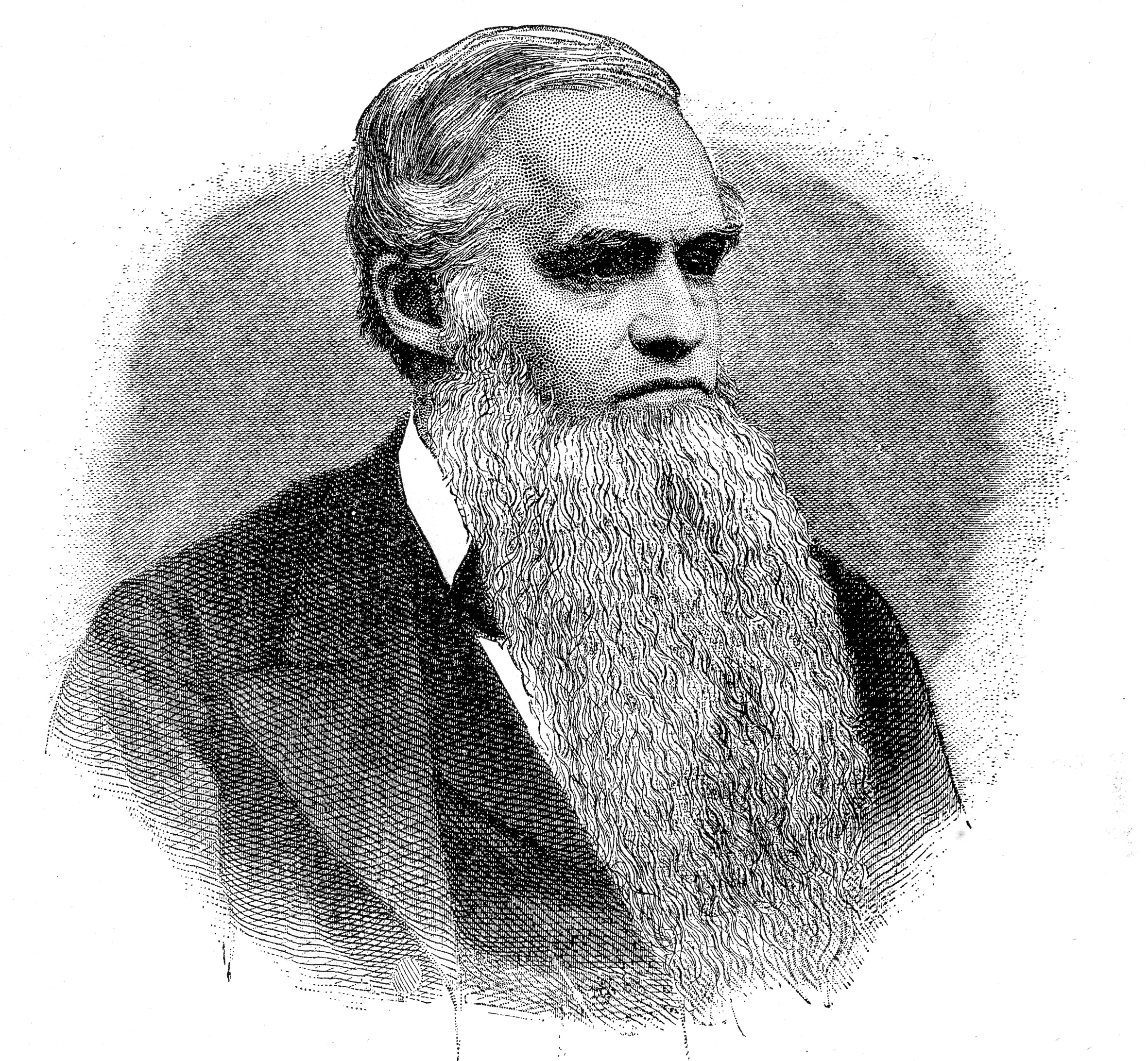 Joseph R. Brown, son of the founder of Brown & Sharpe. 1886 engraving from "The Providence Plantations for 250 Years" (1886), p. 261.